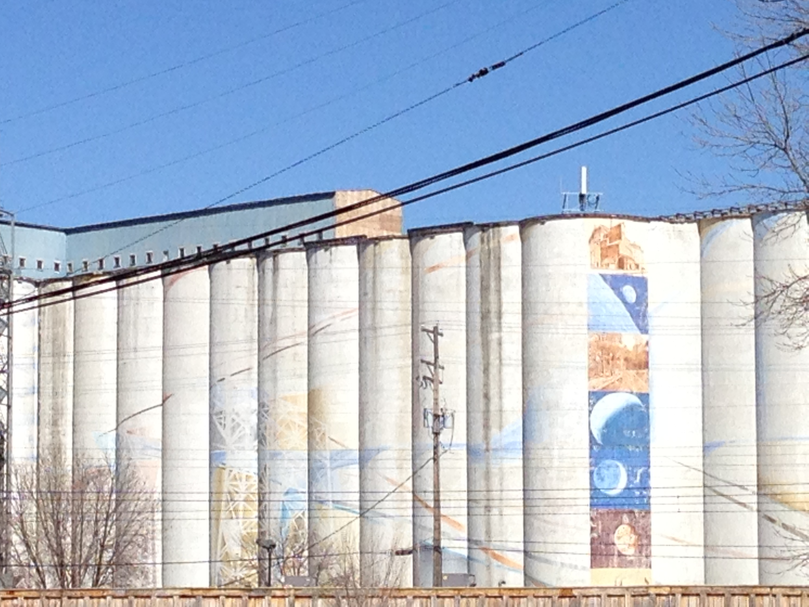 The Hiawatha Avenue Mural in south Minneapolis, Minnesota.